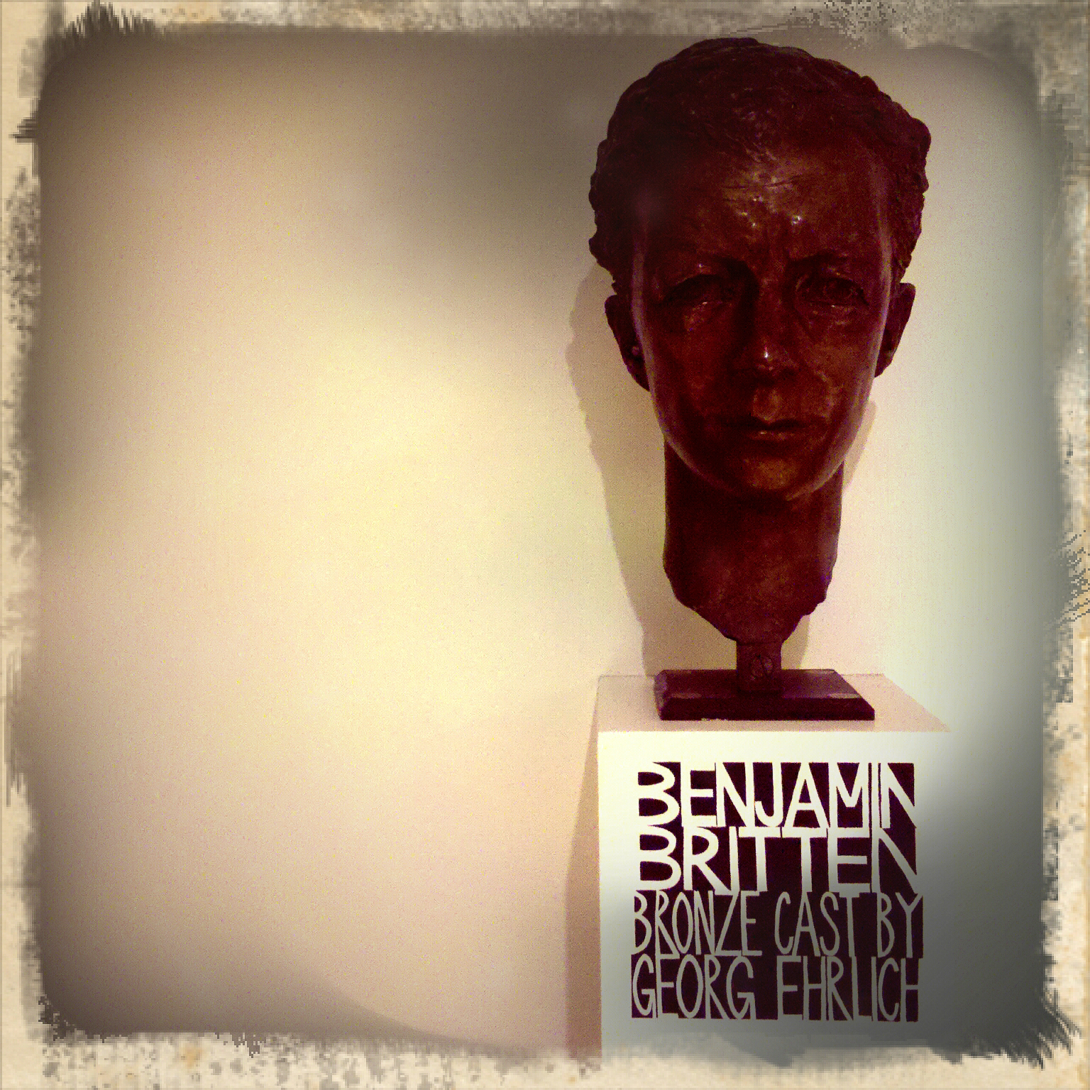 Bronze bust of Benjamin Britten by Georg Ehrlich. On display in Royal Festival Hall in London.